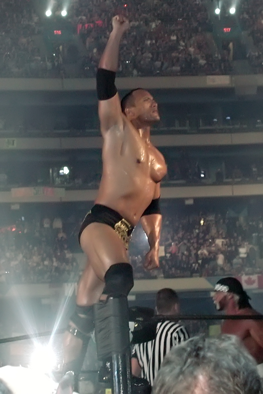 The Rock at WrestleMania X8. Skydome, Toronto, ON, March 17 2002. Taken by me, cropped.